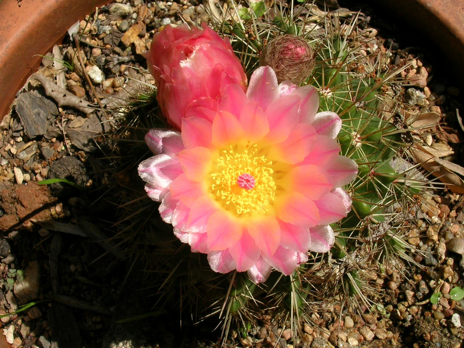 Detail of flowers on Parodia herteri (formerly Notocactus herteri) cactus in Atlanta, Georgia. It shows the three stages of bloom -- one spent blossom, one flower, and one bud.